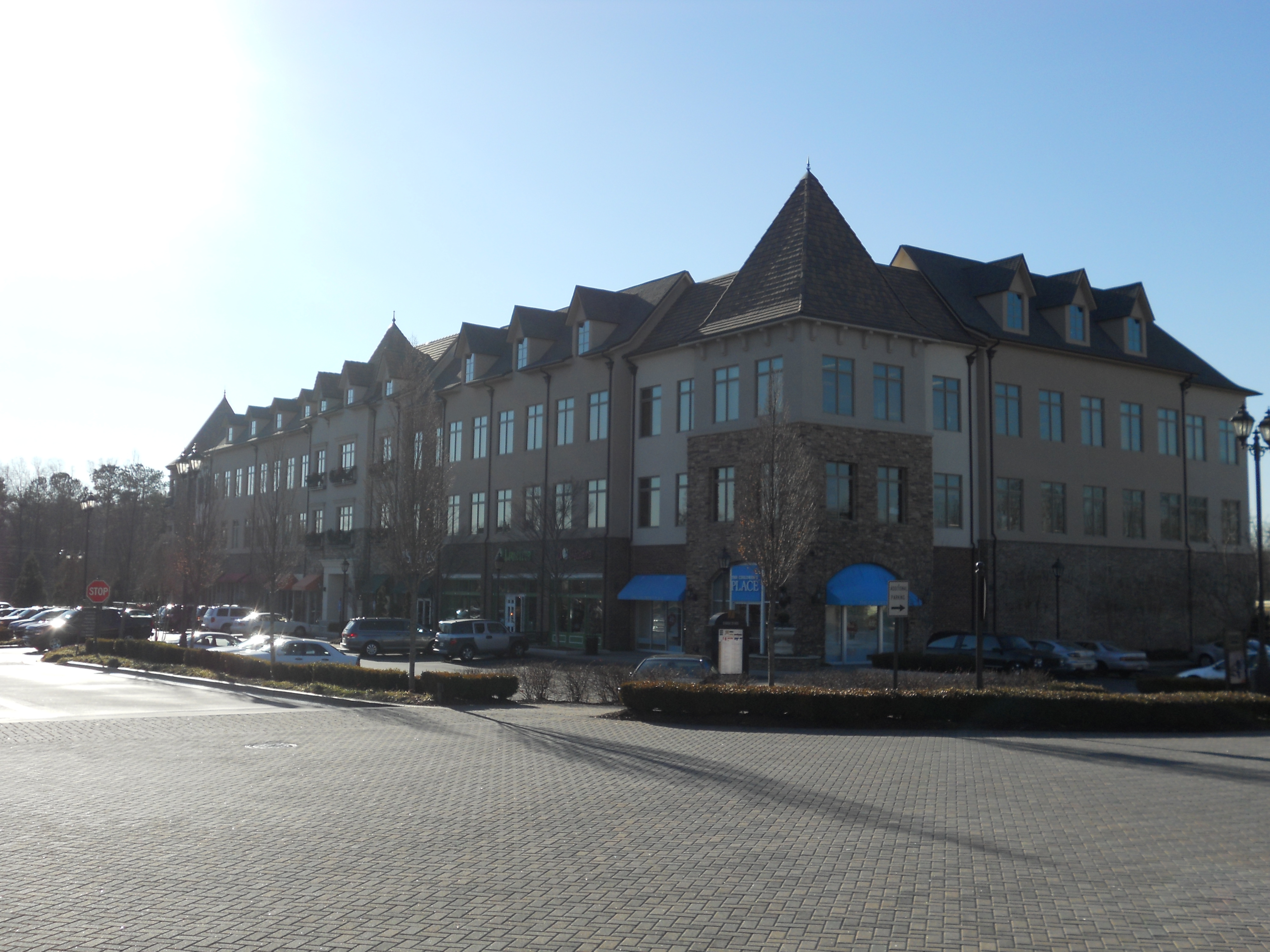 The Forum on Peachtree Parkway in Peachtree Corners, Georgia.